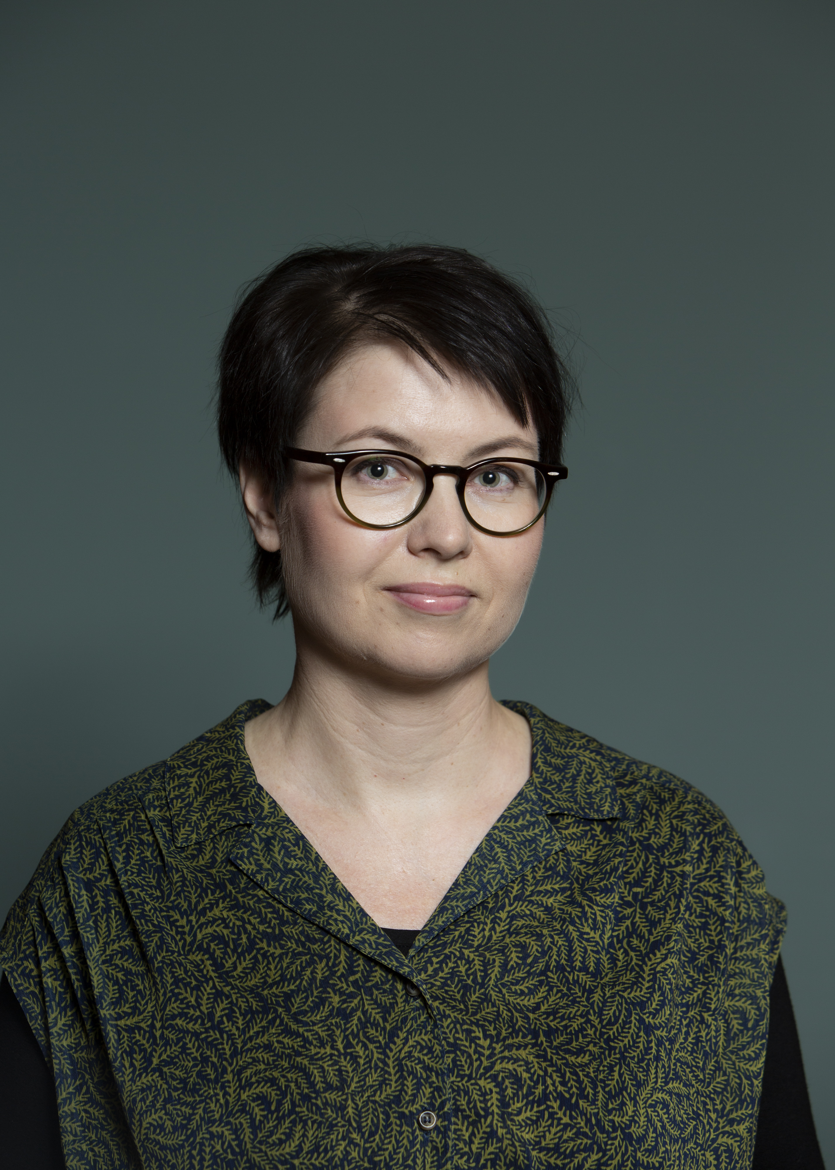 Kankimäki was awarded with Otava Book Foundation's Nonfiction Award in 2020